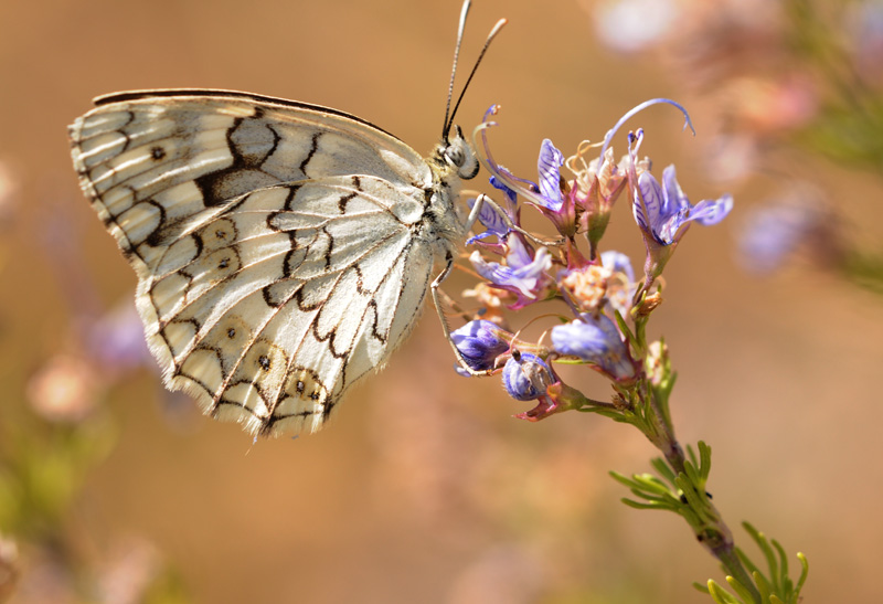 Wing underside view of a female specimen of Balkan Marbled White (Melanargia larissa).